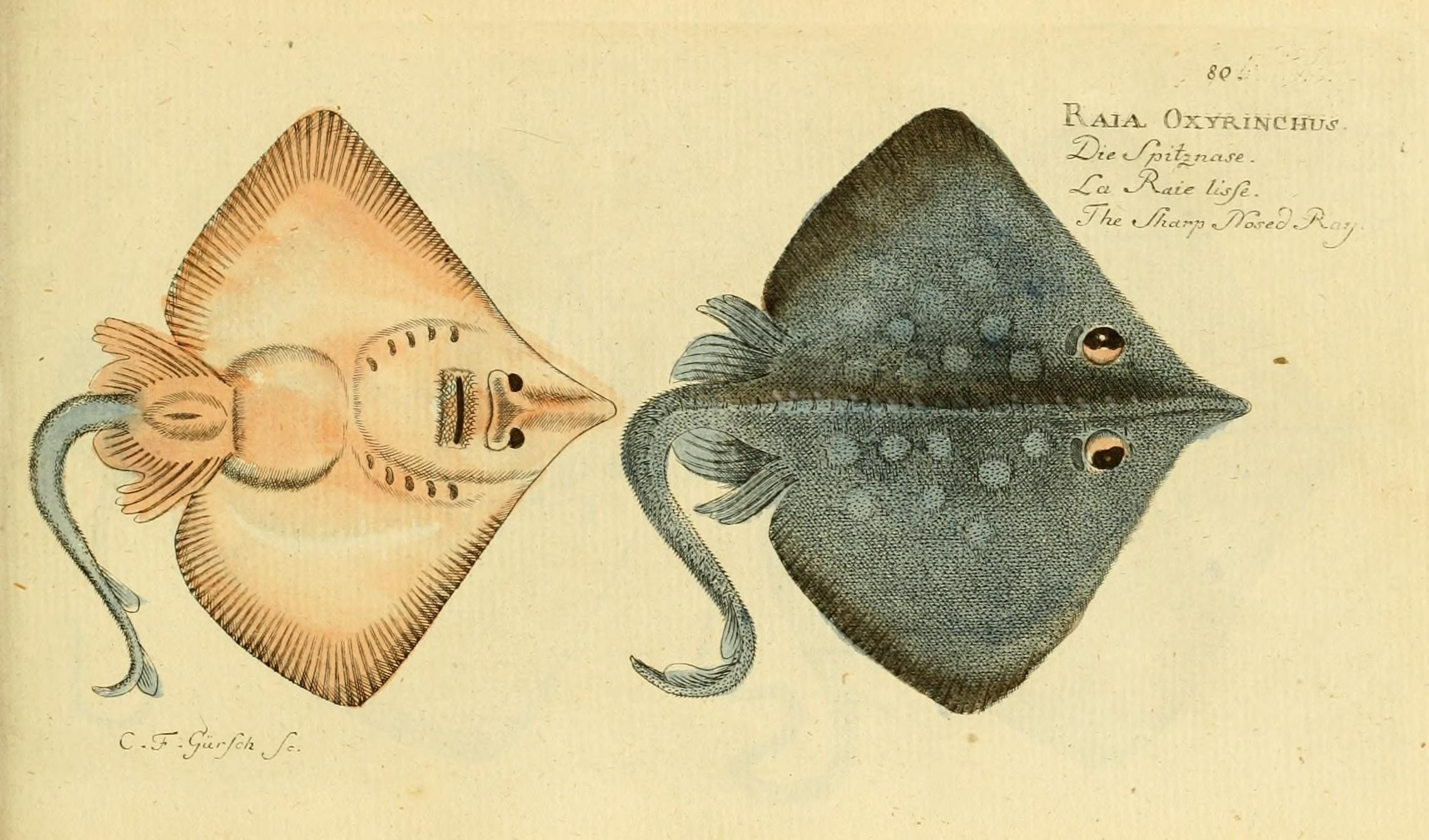 Dipturus oxyrinchus syn. Raja oxyrinchus